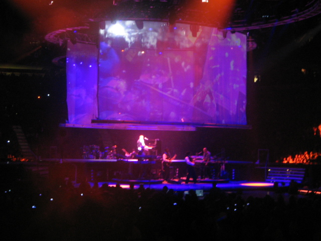 Justin Timberlake singing What Goes Around